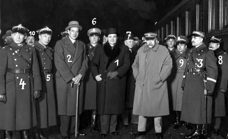 Józef Piłsudski with officers and members of the Polish government before his departure to Vilnius: colonel Kazimierz Glabisz (4), Roman Dębicki (10), colonel Franciszek Sobolta (5), Józef Beck (2), major Adam Sokołowski (6), Bronisław Pieracki (1), Witold Czapski (7), colonel dr. Marcin Woyczyński (8), Felicjan Sławoj Składkowski (3), major Kazimierz Busler (9).